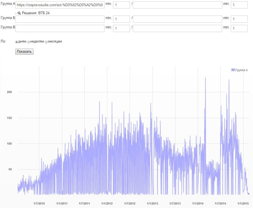 Court decisions on time